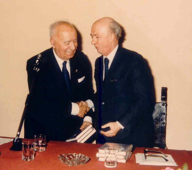 Taviani Paolo Emilio at the University of Genua